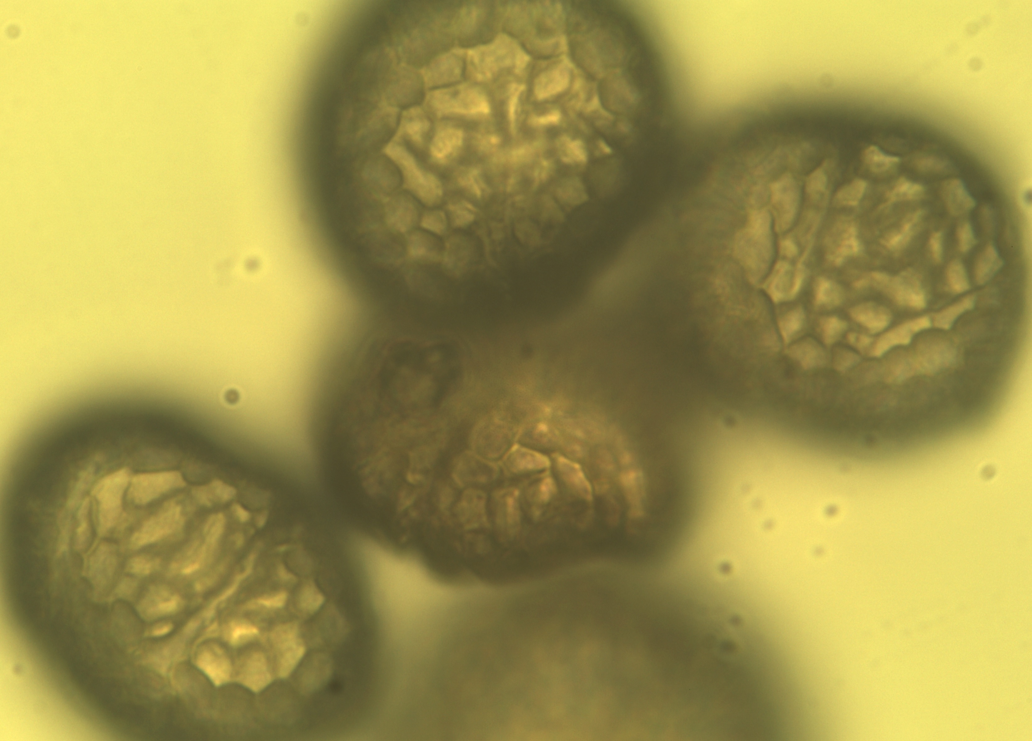 Pollenkörner von Basilikum (400x)